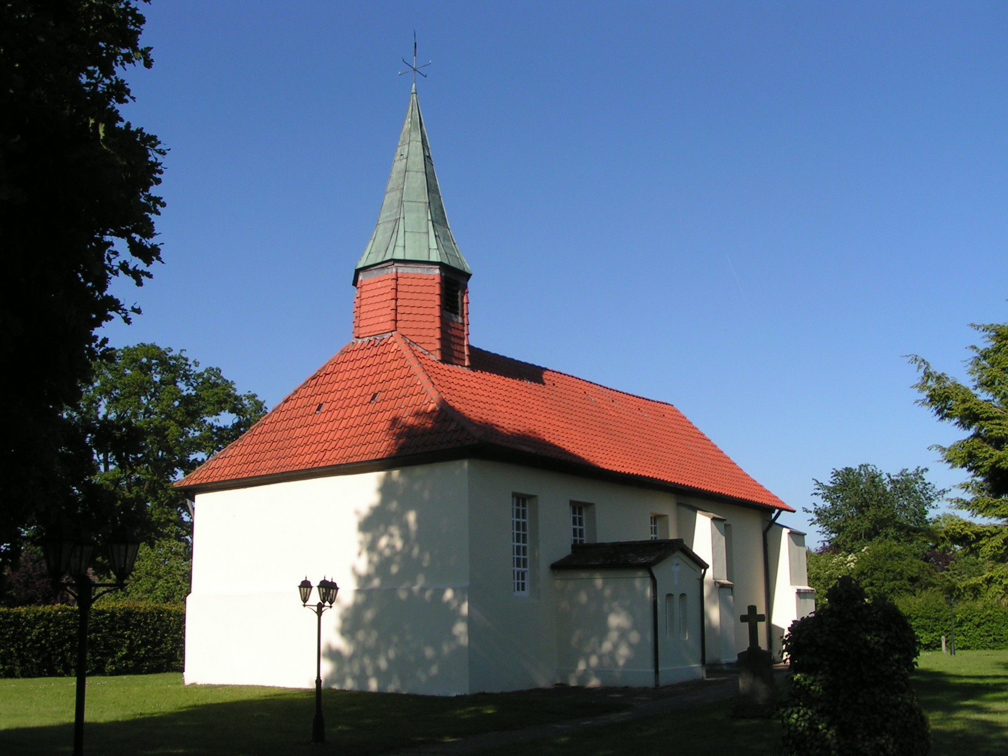 The lutheran church of Dudensen, a small village, belonging to the town Neustadt am Rübenberge in Germany, about 40 km northwest from Hannover.